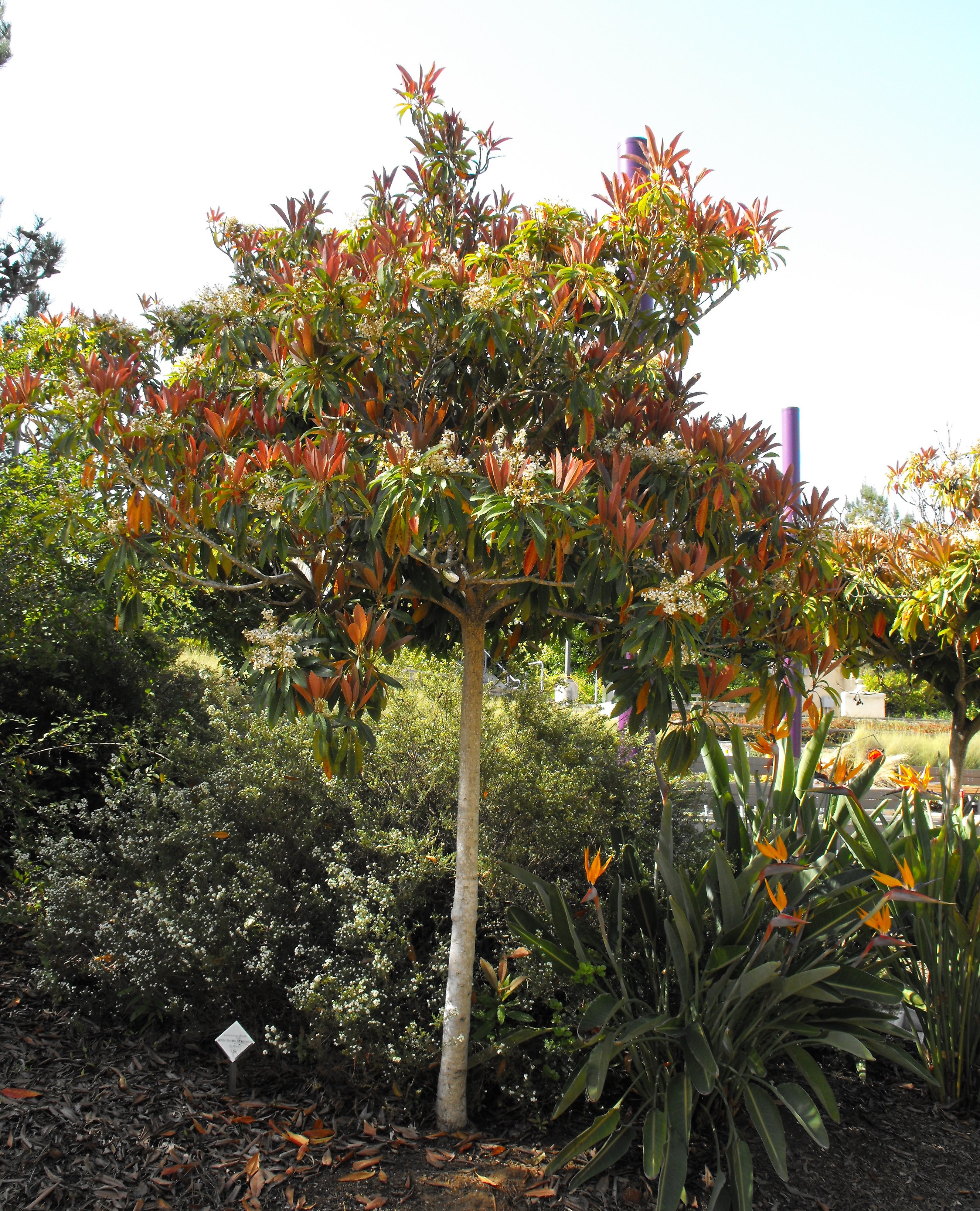 Eriobotrya deflexa in the Water Conservation Garden at Cuyamaca College, El Cajon, California, USA. Identified by sign.